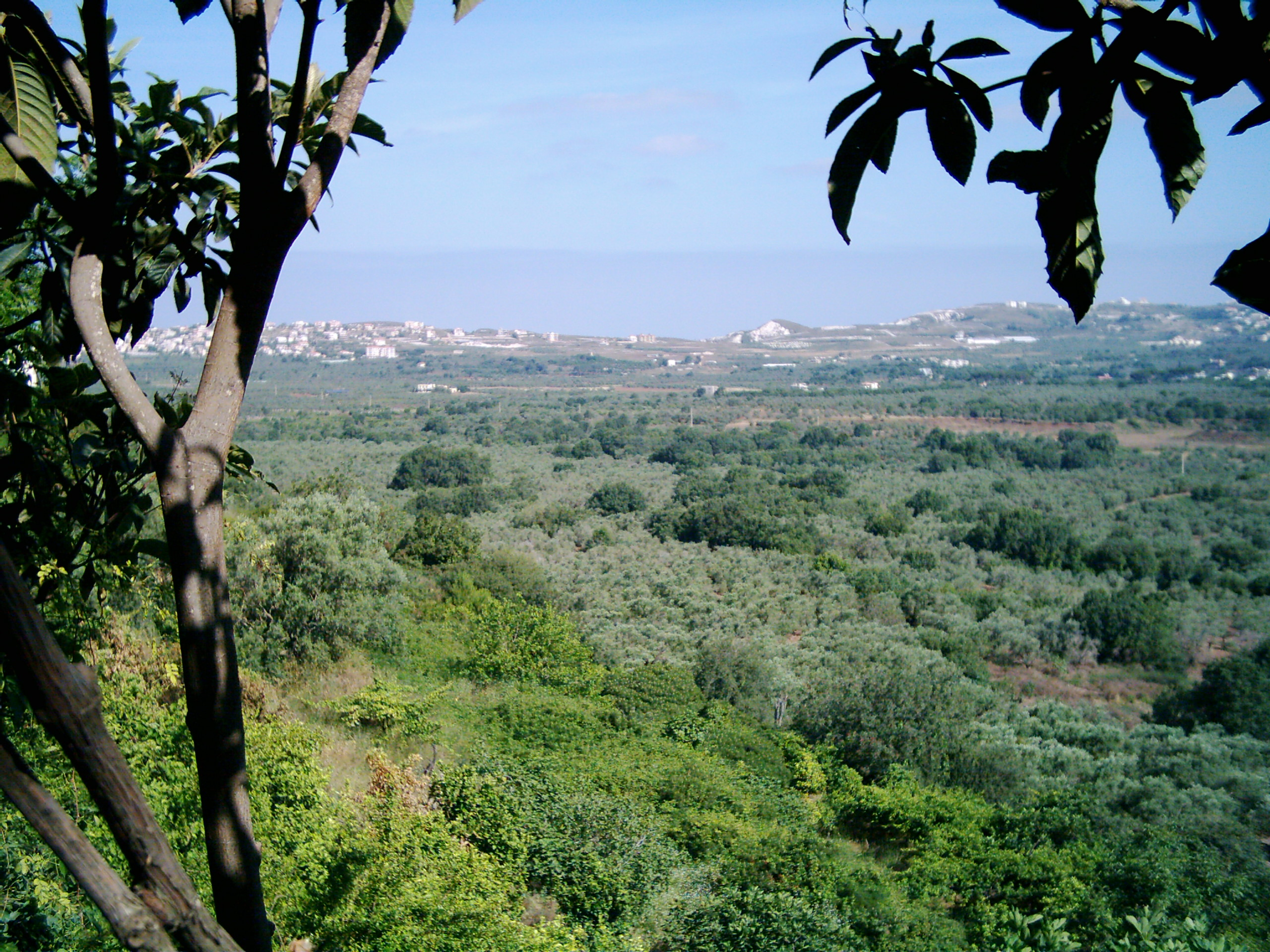 The Al-koura Plain, a landform and Mediterranean forests, woodlands, and scrub habitat, in Lebanon.